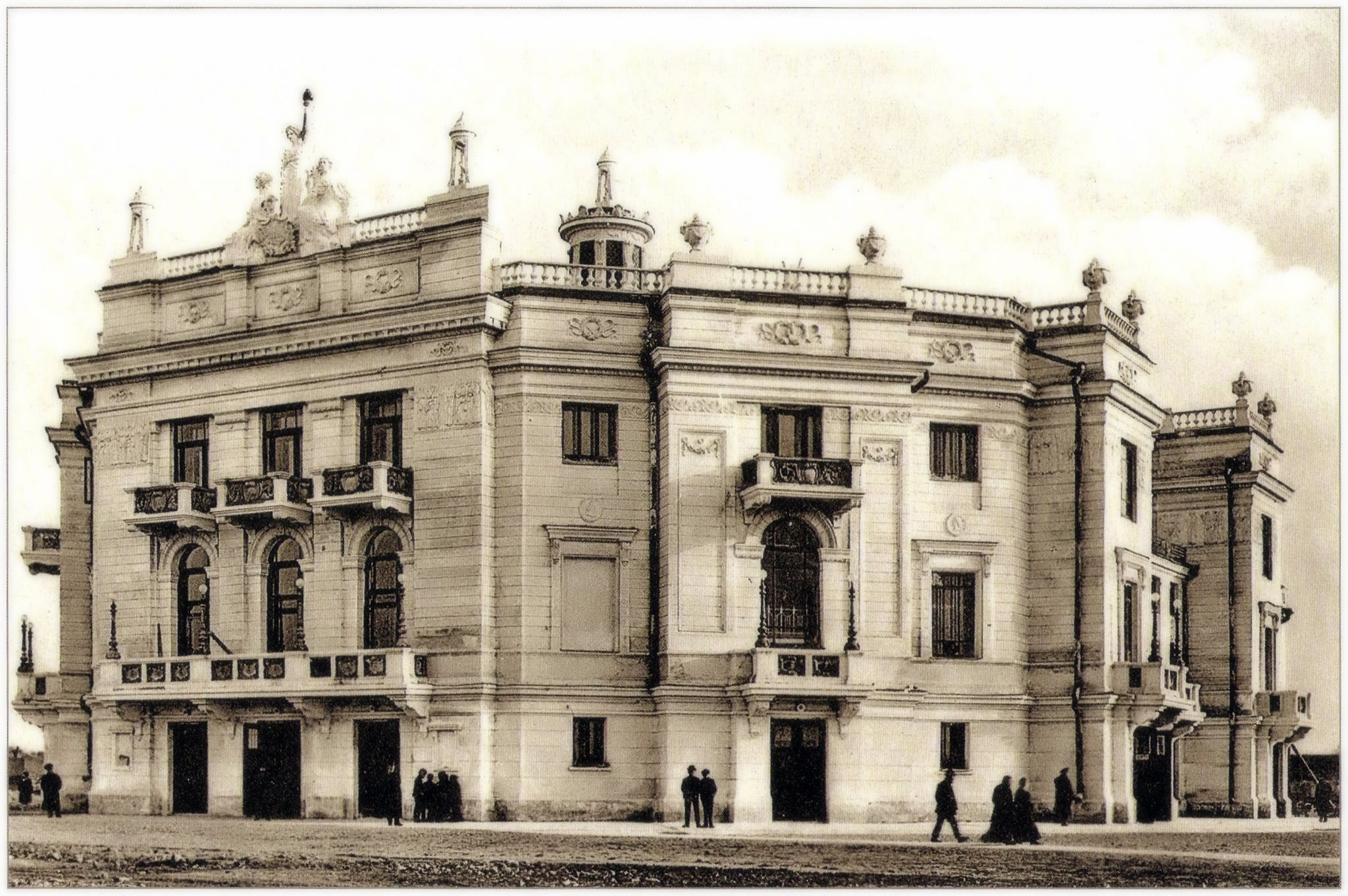 Новый городской театр в Екатеринбурге